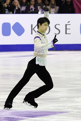 Yuzuru Hanyu in 2015-2016 Grand Prix